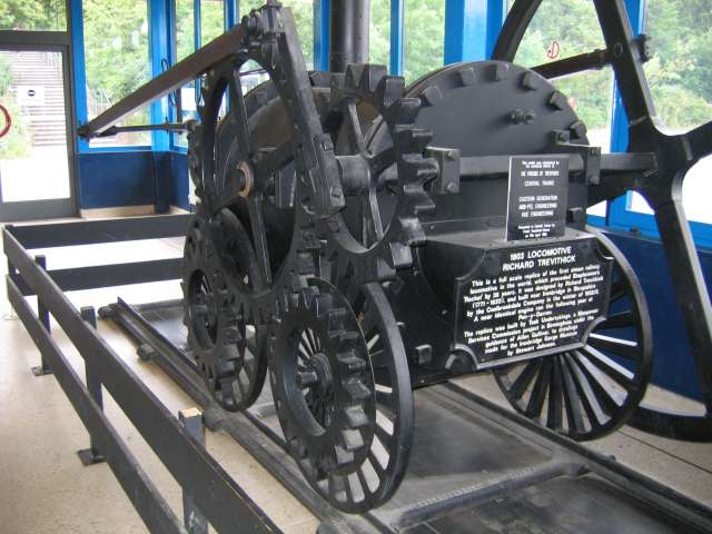 On the plaques is the following text: "This model was refurbished by the combined efforts of: THE FRIENDS OF TREVITHICK CENTRAL TRAINS EASTERN GENERATION ABB-PCL ENGINEERING KUE ENGINEERING Presented to Central Trains by Frank Trevithick-Okuno on 17th April 1998. 1803 LOCOMOTIVE RICHARD TREVITHICK This is a full scale replica of the first steam railway locomotive in the world, which preceded Stephenson's 'Rocket' by 26 years. It was designed by Richard Trevithick (1771-1833), and built near Ironbridge in Shropshire by the Coalbrookdale Company in the winter of 1802/3. A near identical engine ran the following year at Pen-y-Darren. The replica was built by Task Undertakings, a Manpower Services Commission project in Birmingham, under the guidance of Allen Gulliver, to drawings made for the Ironbridge Gorge Museum by Stewart Johnson." This replica is located in Telford Central Station, Telford, Shropshire, UK. The photo was taken on 14 June 2005 by Mark Barker. is Mark Barker the uploader? Yes. Mark Barker was the uploader. --MaxHund 00:43, 21 March 2006 (UTC)